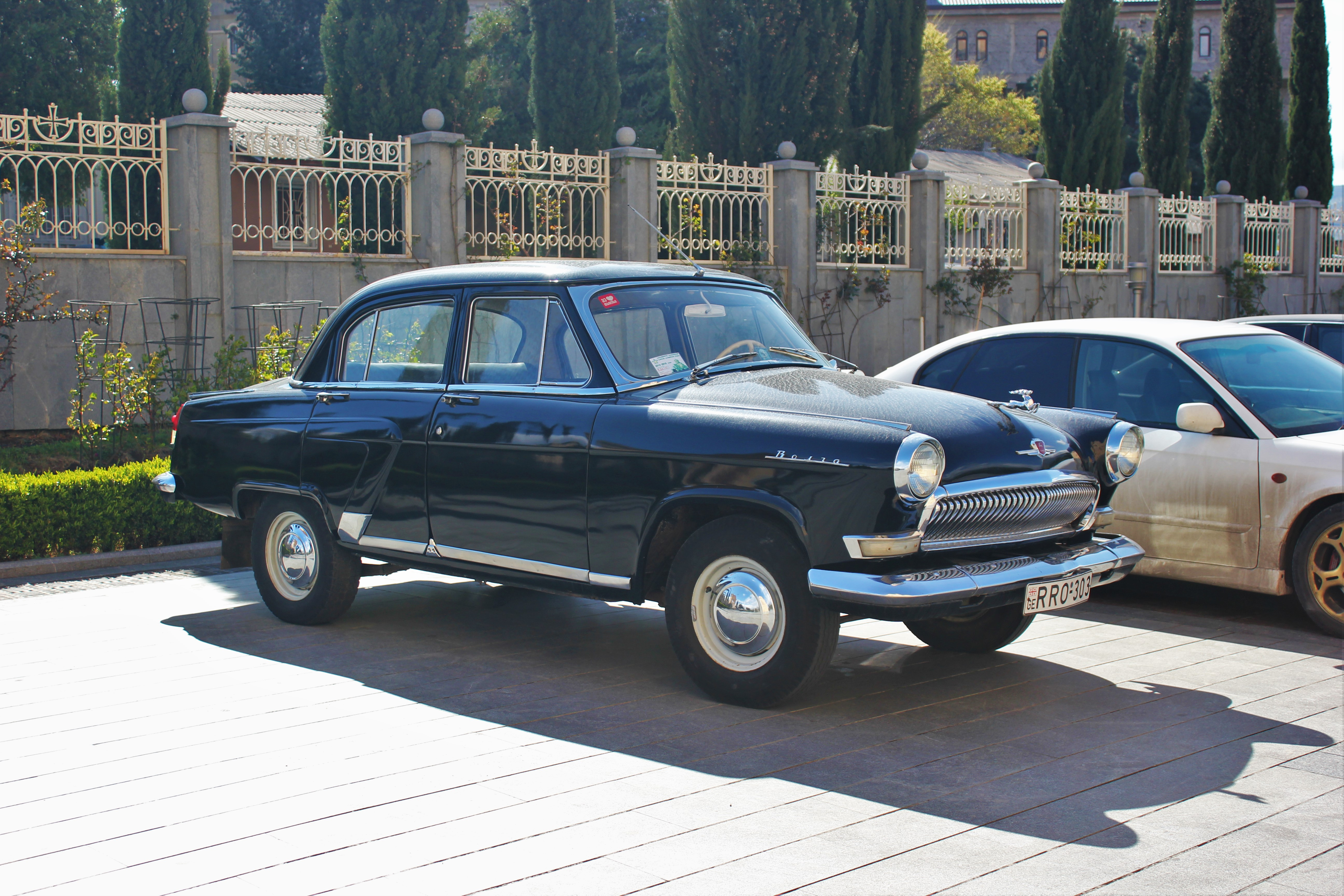 GAZ M21 Volga produced in the Soviet Union. 13.04.2016, Tbilisi, Georgia